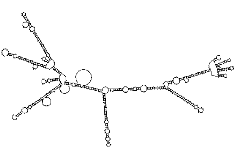 Structure of stem-loop domains predicted for TMEM128.